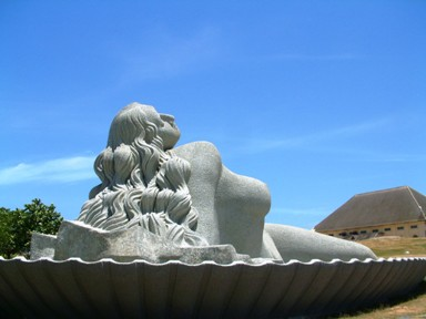 Mermaid at Shankumughom beach at Trivandrum by Kanayi Kunhiraman